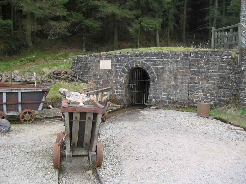 Entrance to Killhope Wheel Lead Mine